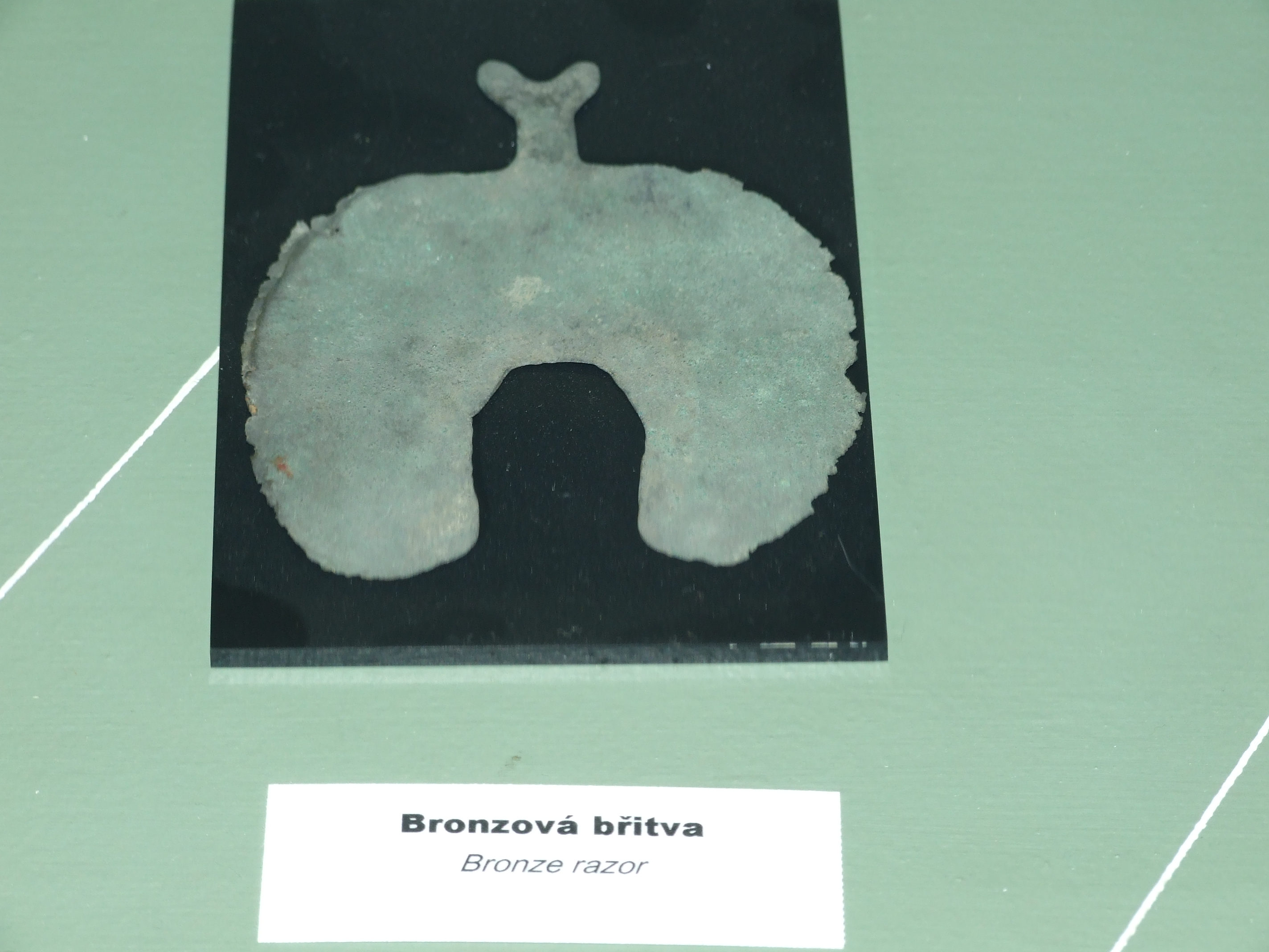 Prehistoric Times of Bohemia, Moravia and Slovakia, National Museum in Prague